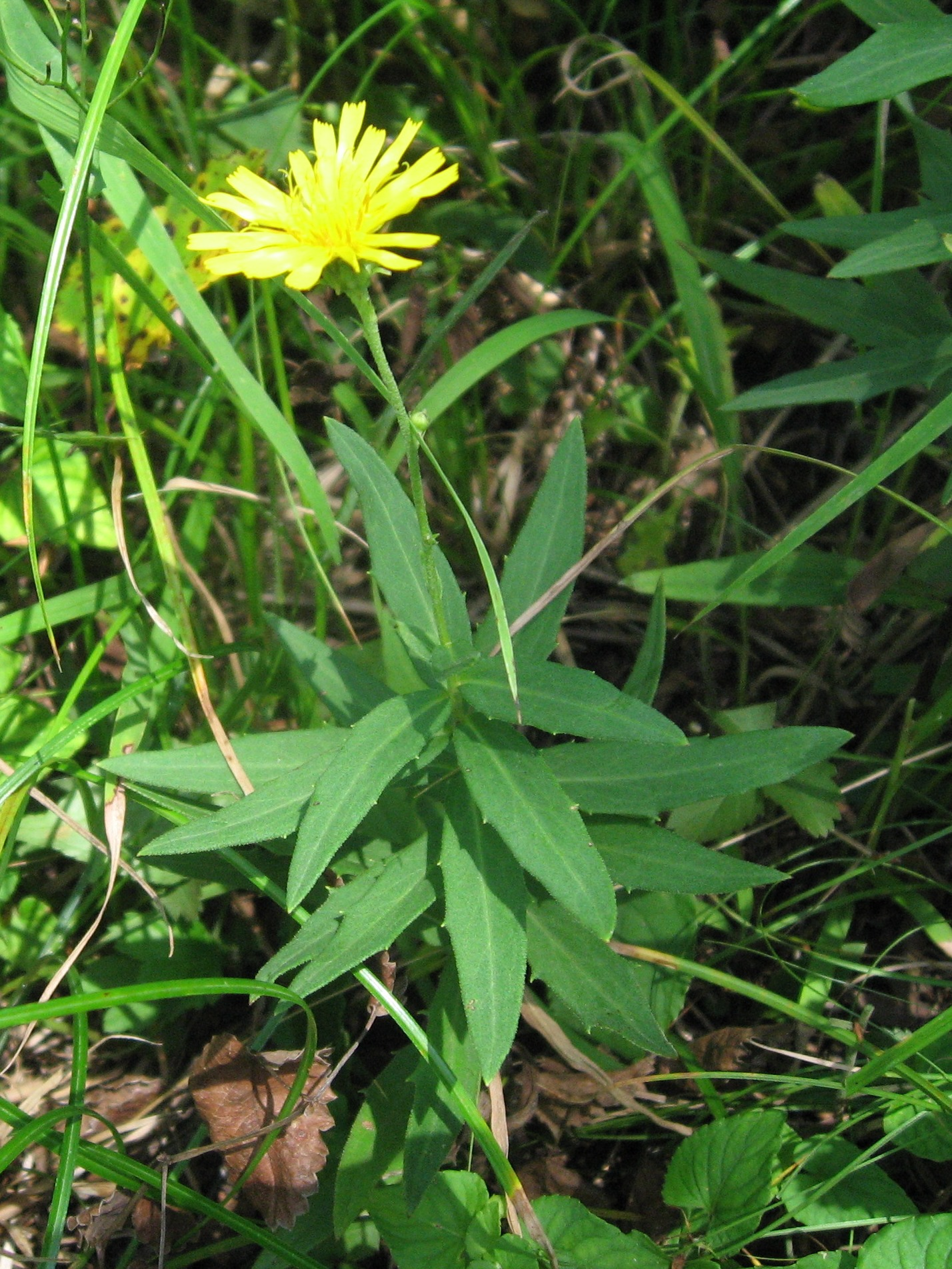 Hieracium umbellatum, Aizu area, Fukushima pref., Japan